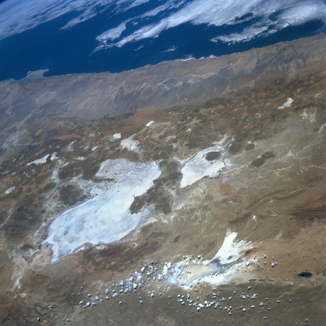 Satellite image of Salar de Uyuni - Salar de Coipasa - Lake Poopo, Bolivia. (North at right) Lake Poopo, Salar de Uyuni, Bolivia September 1996. Numerous bright salars or salt flats are visible in this westerly view of the southwestern part of the Altiplano in Bolivia. Many volcanic cones (darker, roughly circular features) are visible, mainly along the western flanks of the two large salars, Uyuni (largest) and Coipasa. Lake Poopo, a light colored feature northeast of the two large salars, appears to be relatively devoid of standing water at the time this image was obtained. Some clouds partially obscure the southern end of intermittently water filled Lake Poopo. The Andes Mountains dramatically decrease in elevation in a relatively short horizontal distance along the western slopes of the mountains. Known as the Atacama Desert of northern Chile, this synoptic view shows a large section of one of the most arid regions on earth.